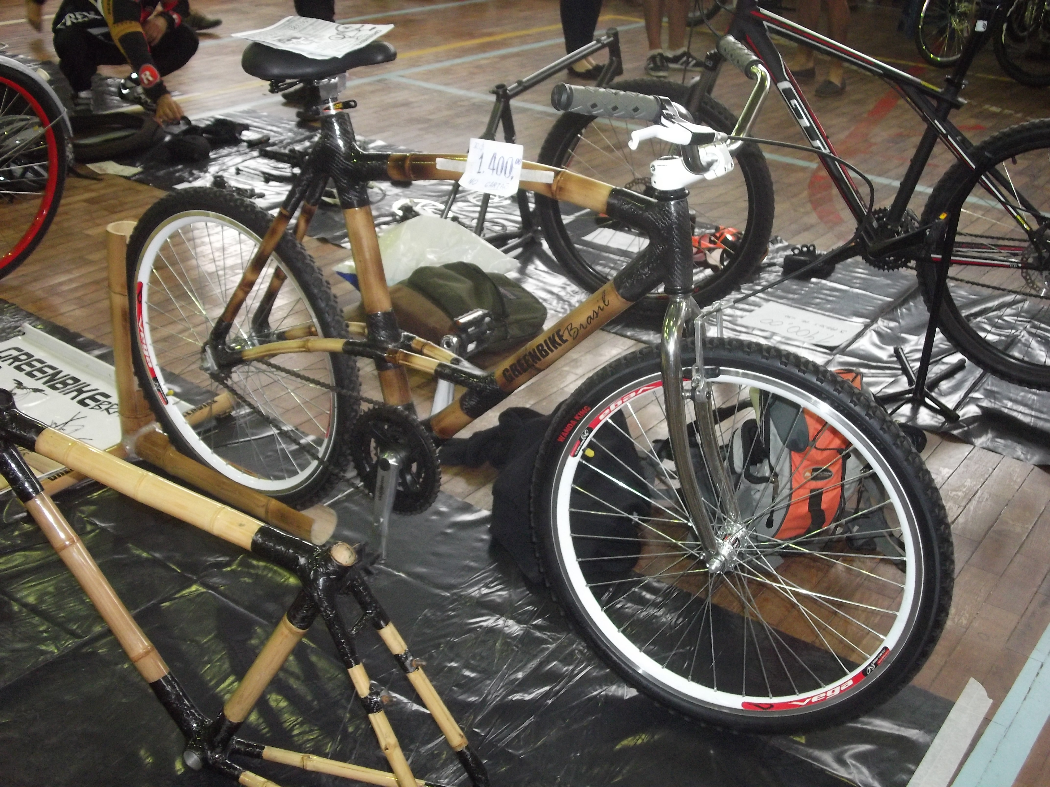 Bamboo bike in Porto Alegre, Brazil, 2013-09-15